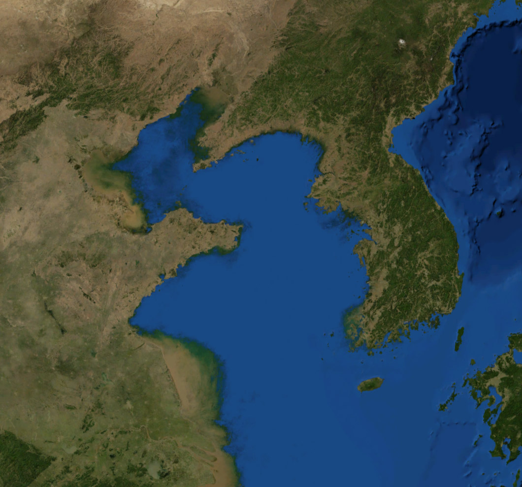 Satellite Picture of the Yellow Sea